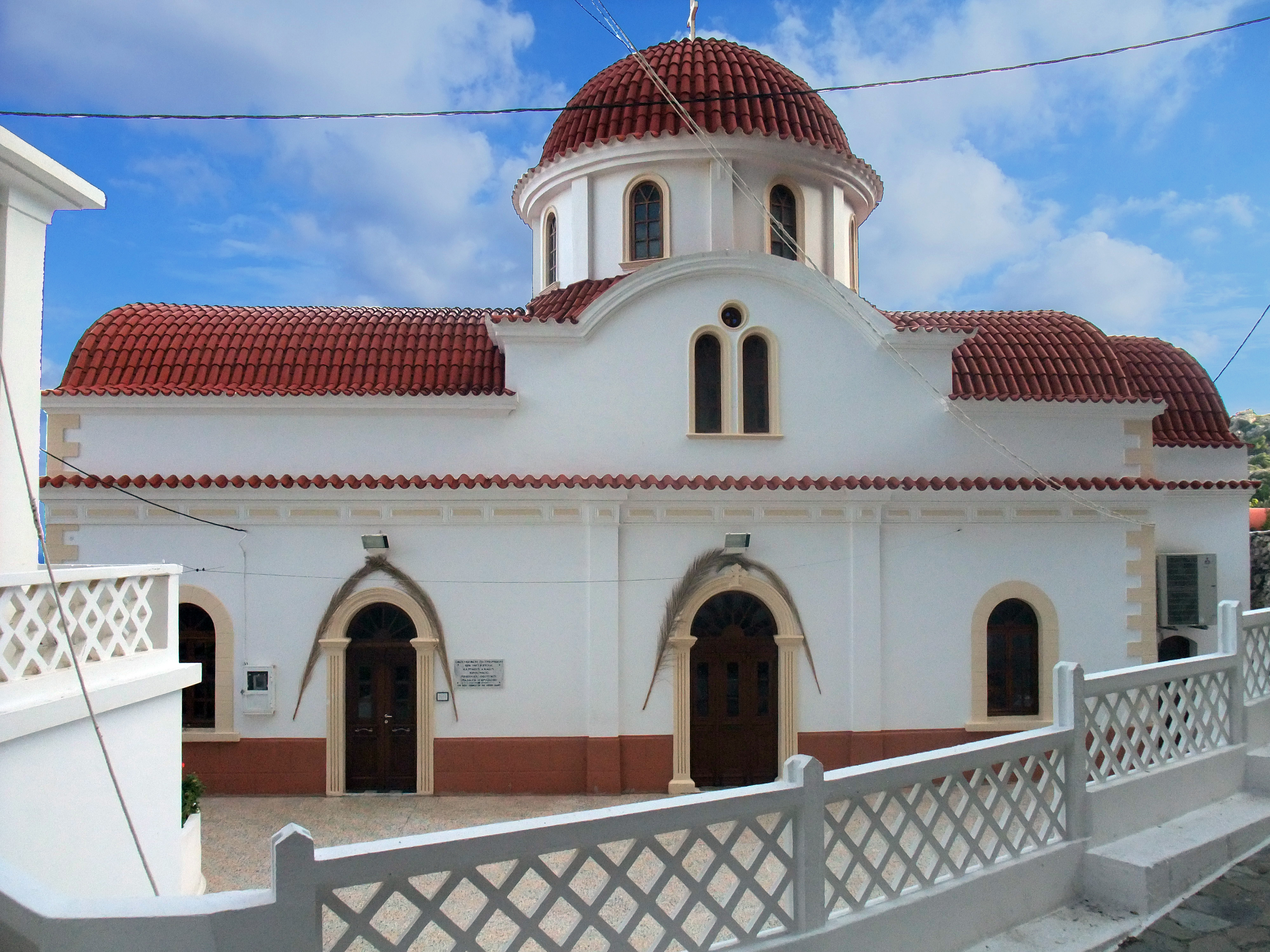 Panagía Vrisiani in Messochóri, Karpathos, Greek Dodecanese islands